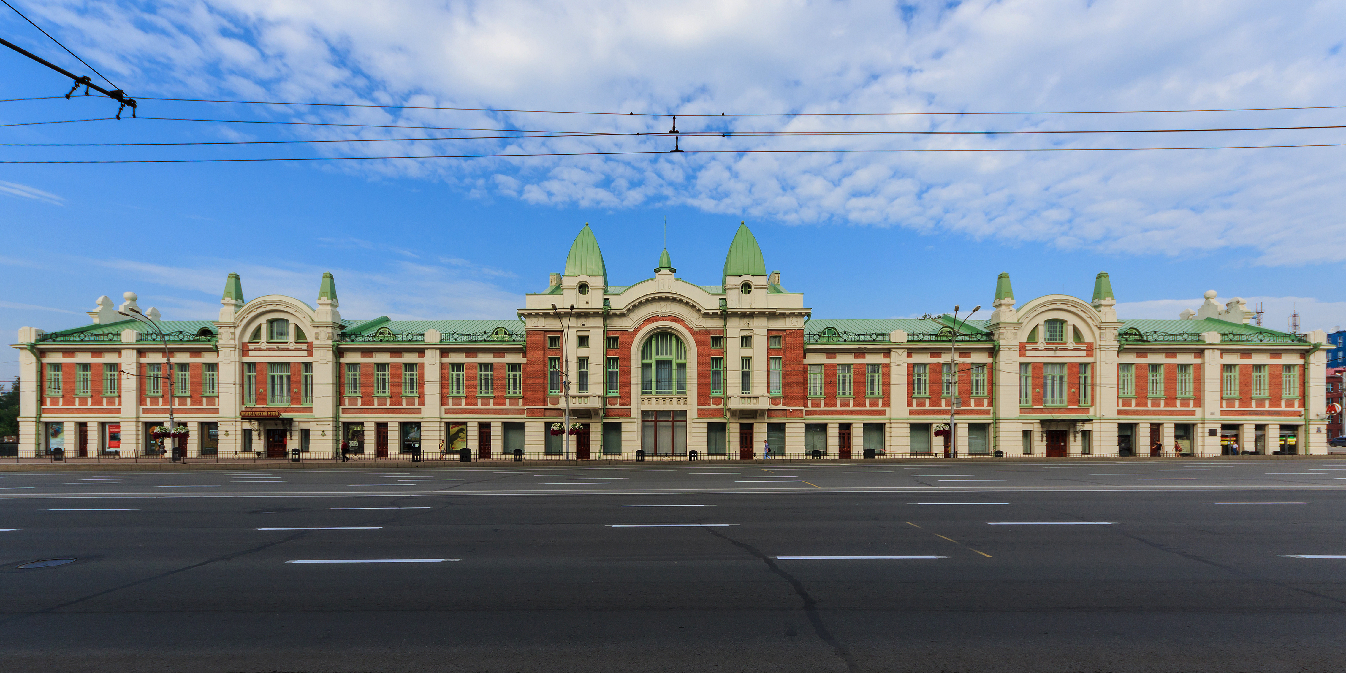 Building of the Trade House (listed) in Novosibirsk, Russia.